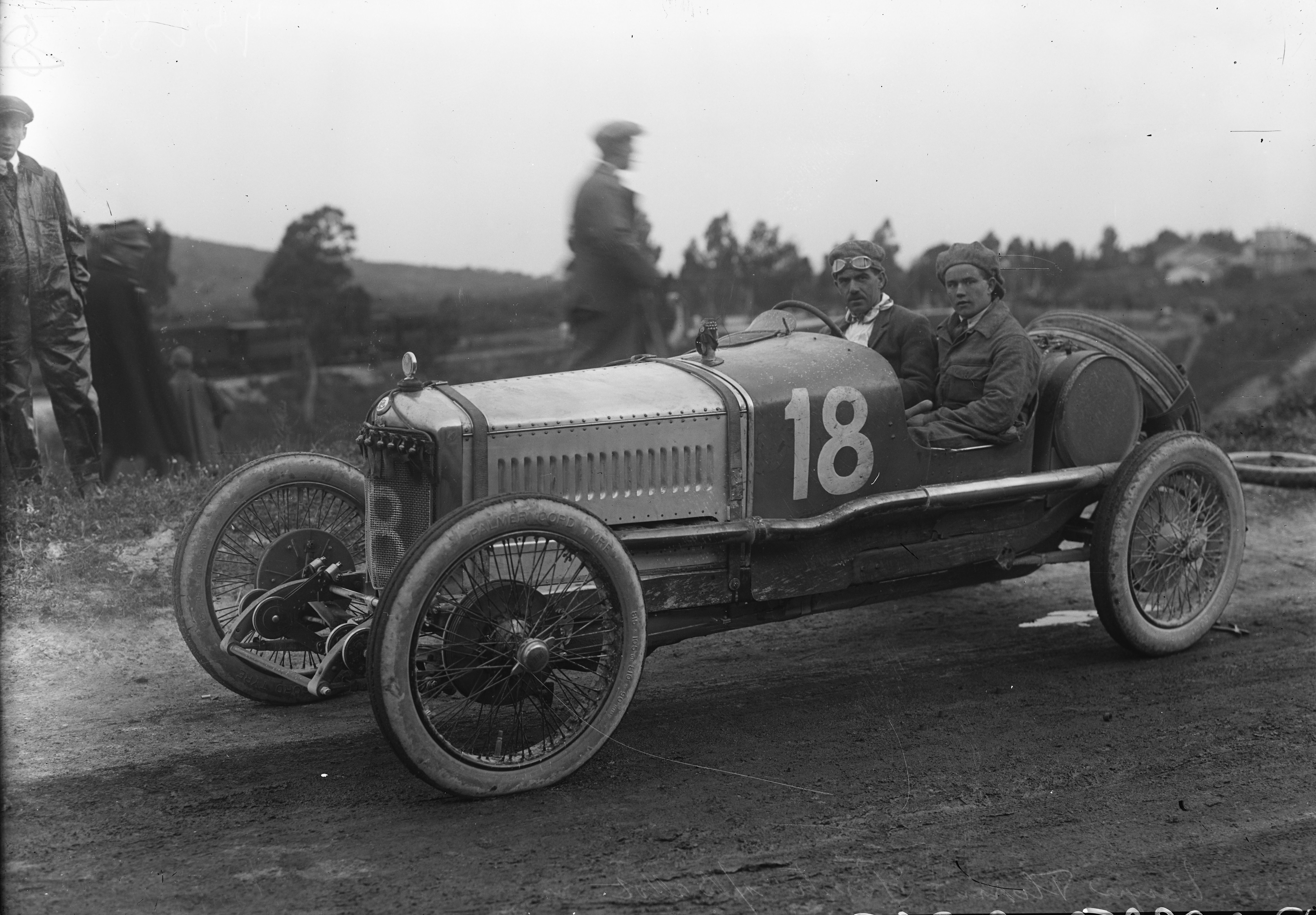 Giulio Foresti in his Ballot at the 1922 Targa Florio.